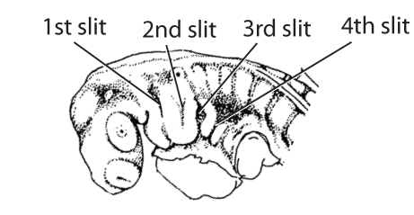 Standard Event System character depiction